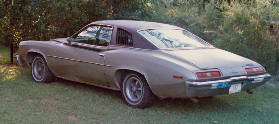 !973 Pontiac LeMans Sport Coupe, 400 CID engine, dual exhaust, silver ascot color, unique stripe